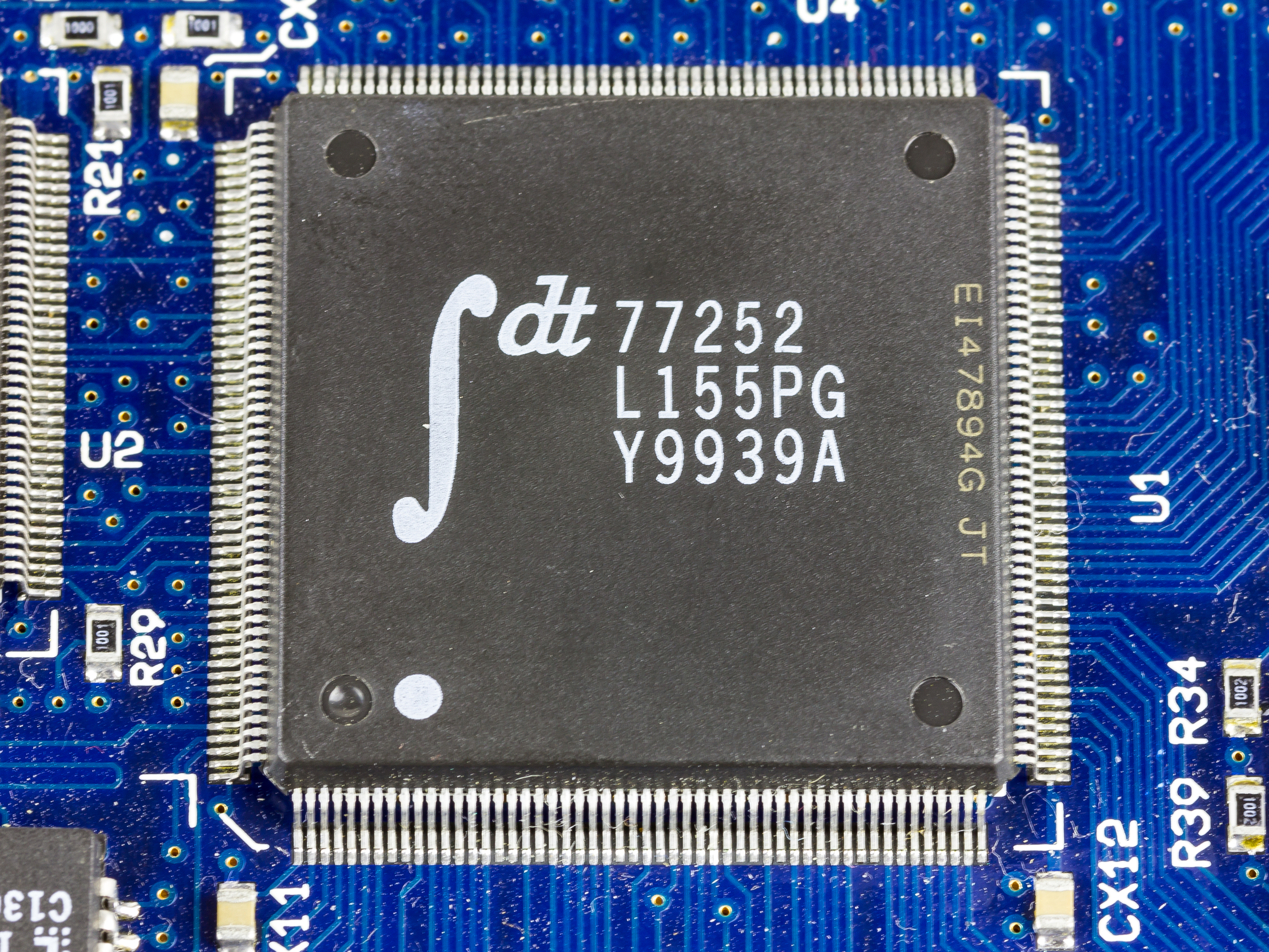 HST Saphir 2155 - IDT 77252 (155 Mbps ATM SAR Controller)